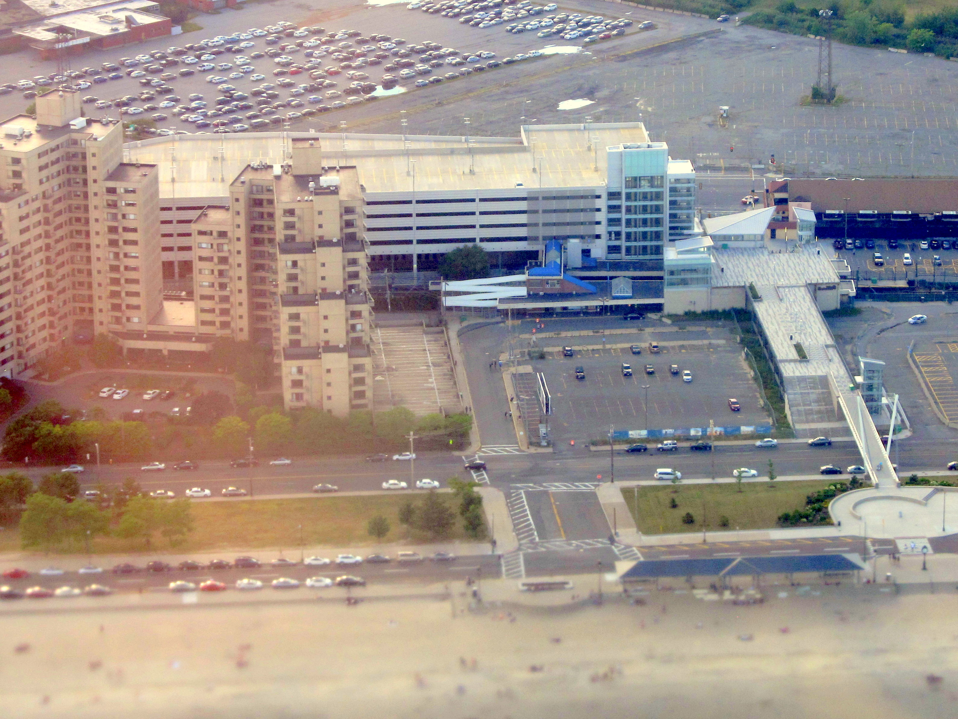 Aerial view of the Wonderland station complex in July 2016